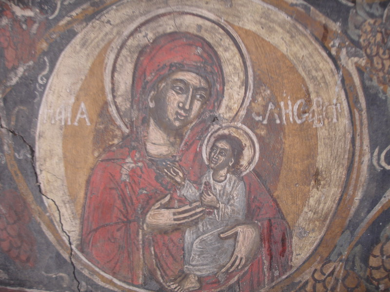 Tranovalto St Nicholas Church Fresco